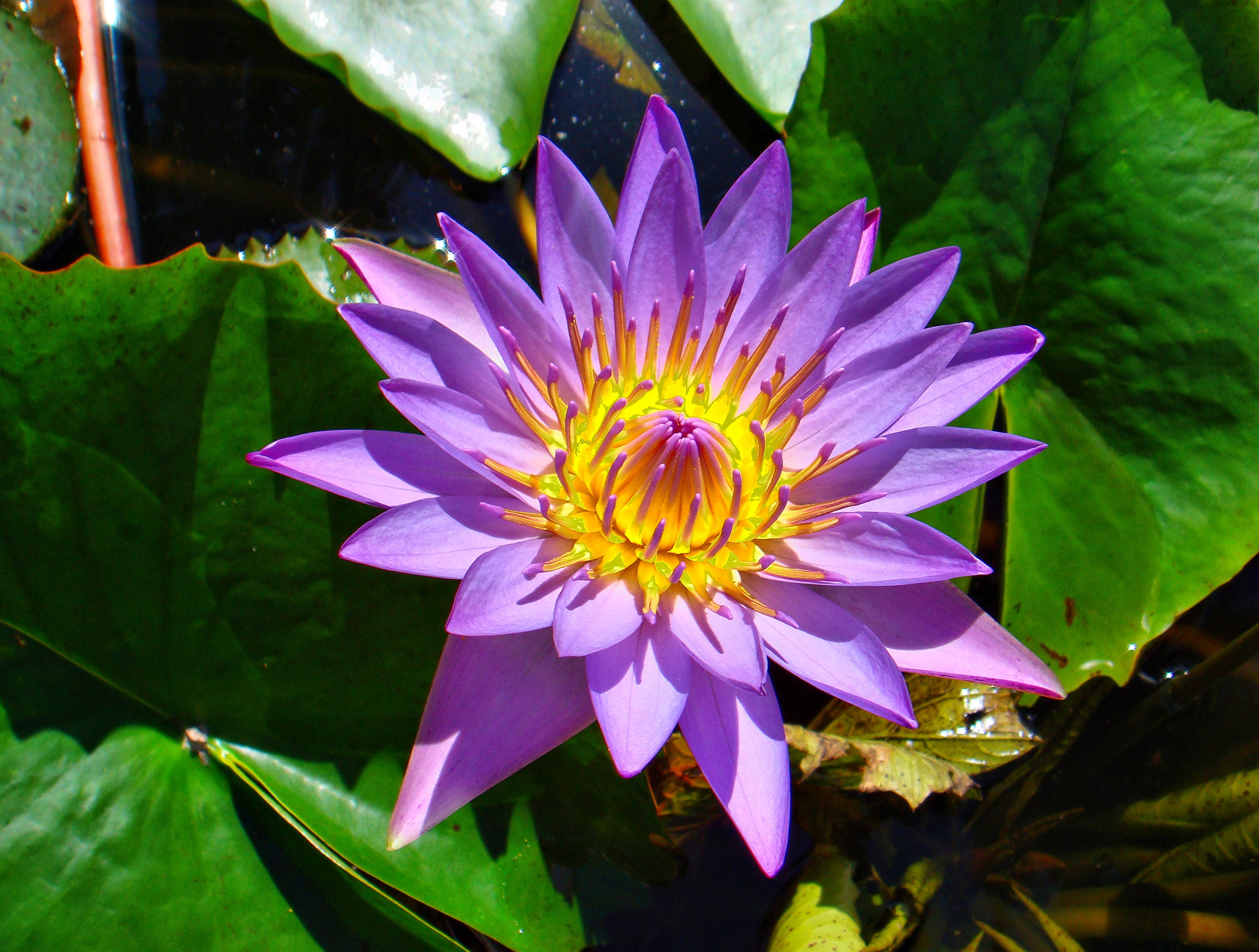 Water Lilly (Nymphaea nauchali) in Kerala, India